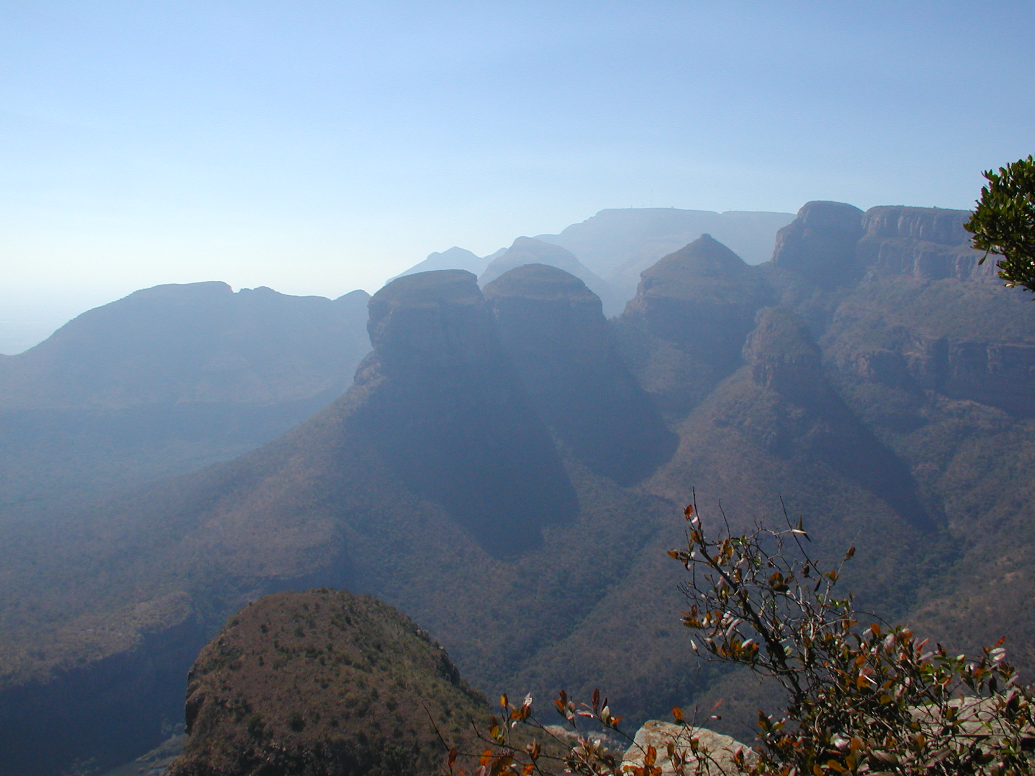 Blyde River Canyon- Three Rondavels, South Africa